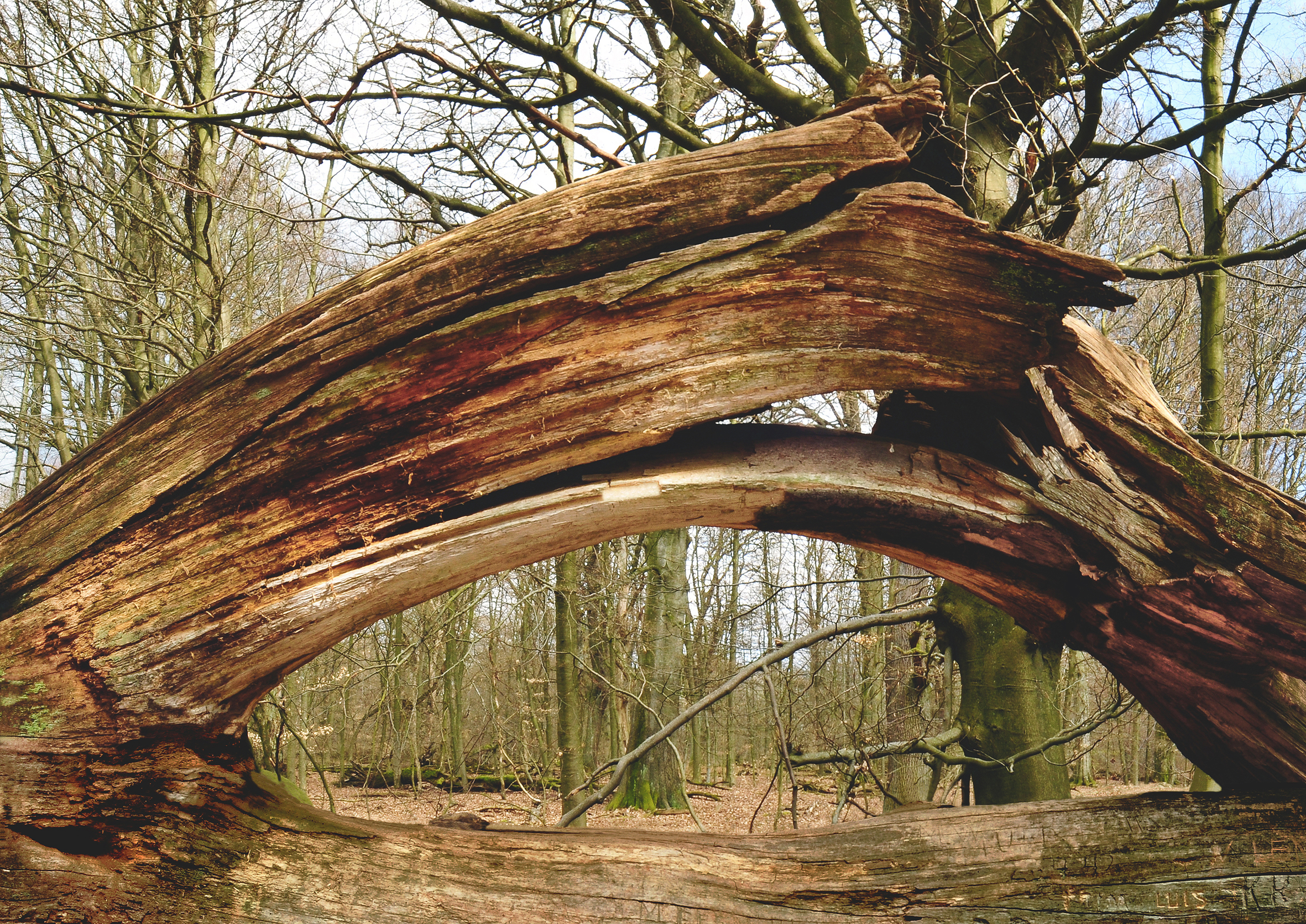 Broken tree in the primeval forest Sababurg near Hofgeismar, district Kassel, Hesse, Germany.